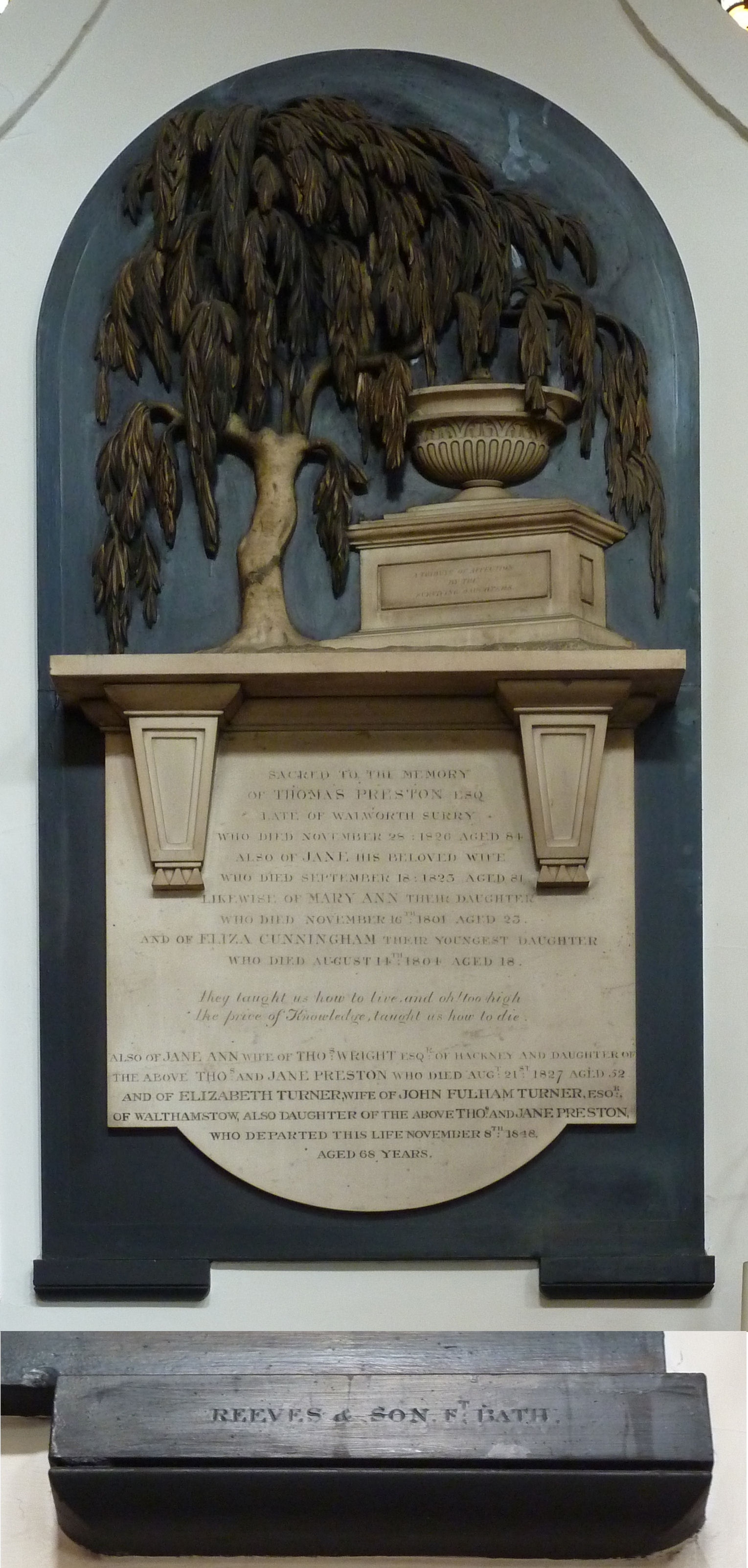 Wall-mounted memorial in St Magnus-the-Martyr, one of the City of London Churches, near London Bridge, featuring willow tree motif, of Thomas Preston Esq. (d.1820) and wife Jane (d.1823), It was carved c.1820 by monumental mason Reeves of Bath, signed with makers' mark Reeves & Son of Bath